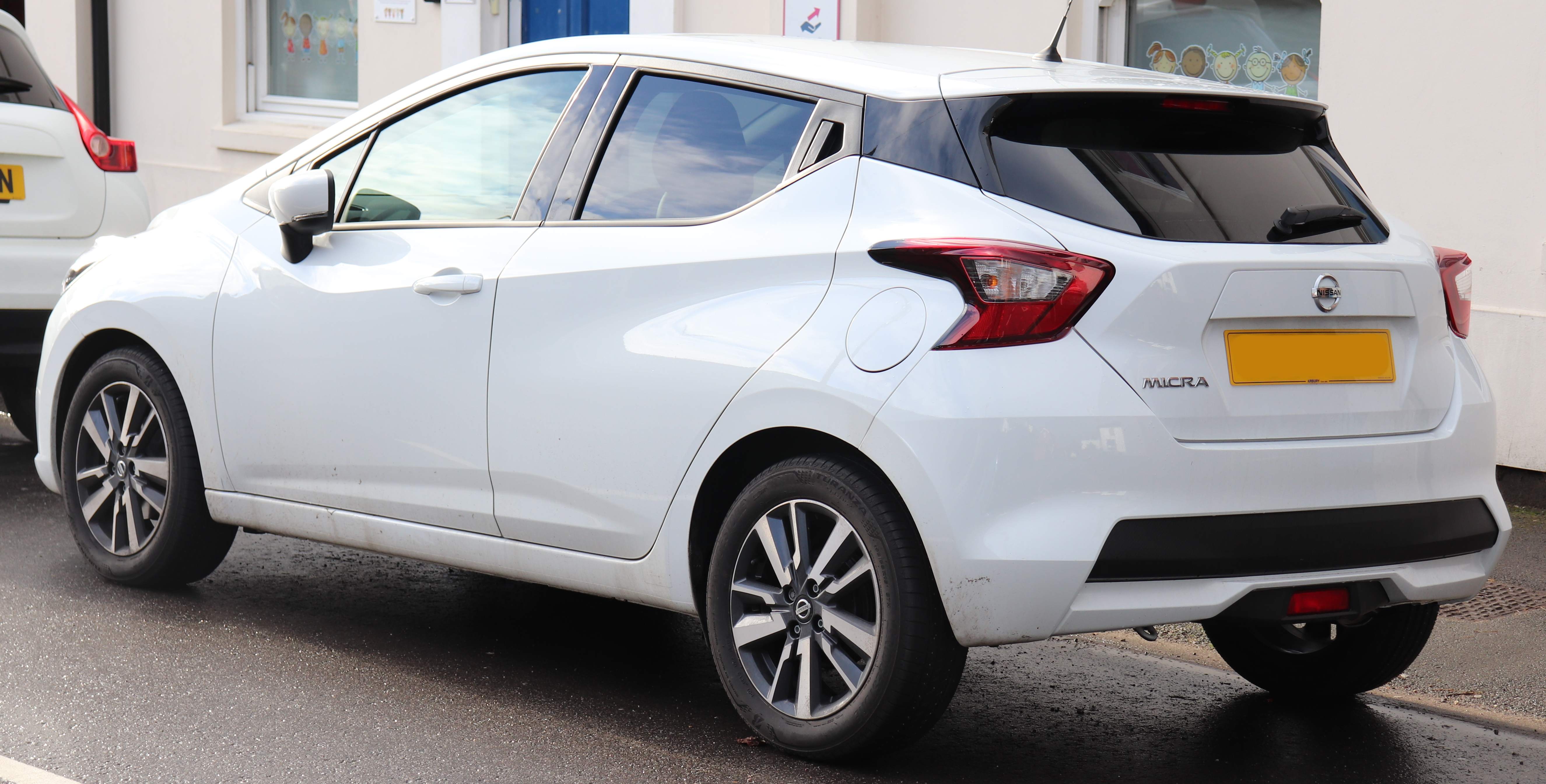 2017 Nissan Micra N-Connecta IG-T 900cc Rear Taken in Leamington Spa